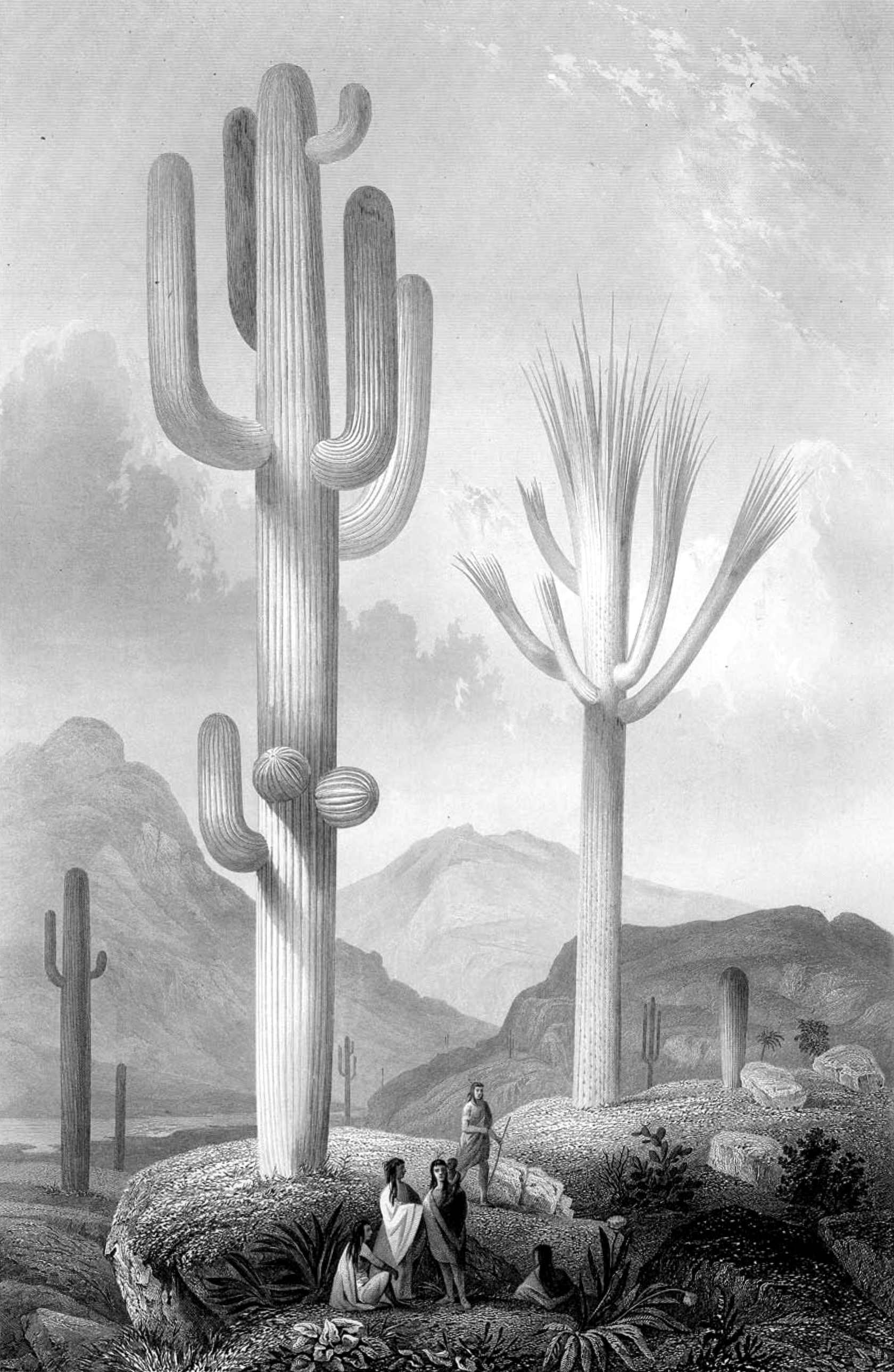 View along the Gila (Cereus giganteus).